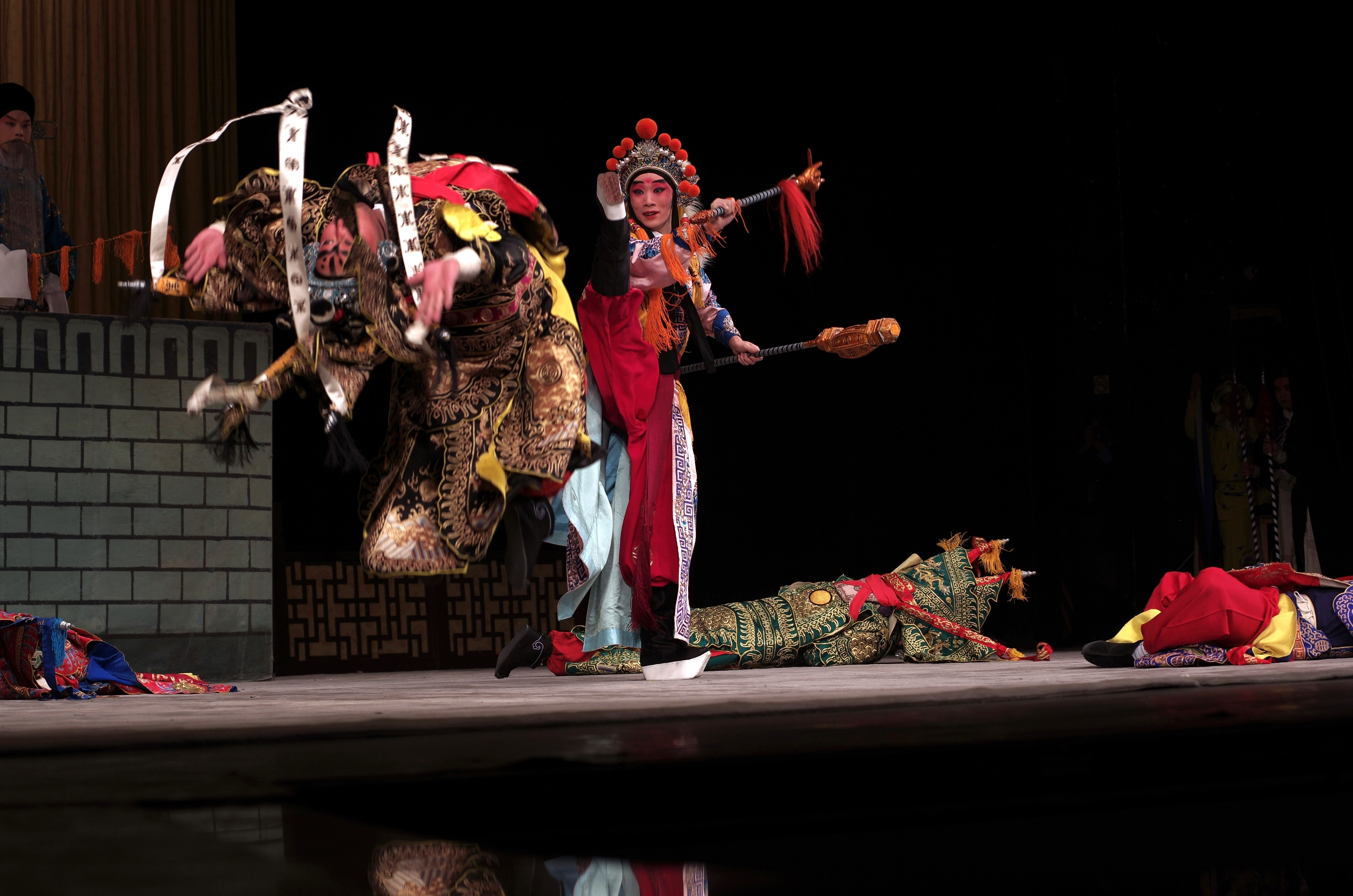 A Peking opera performance in Tianchan Theatre by Shanghai Jingju Theatre Company. Wang Xilong (王玺龙) stars as Li Cunxiao.